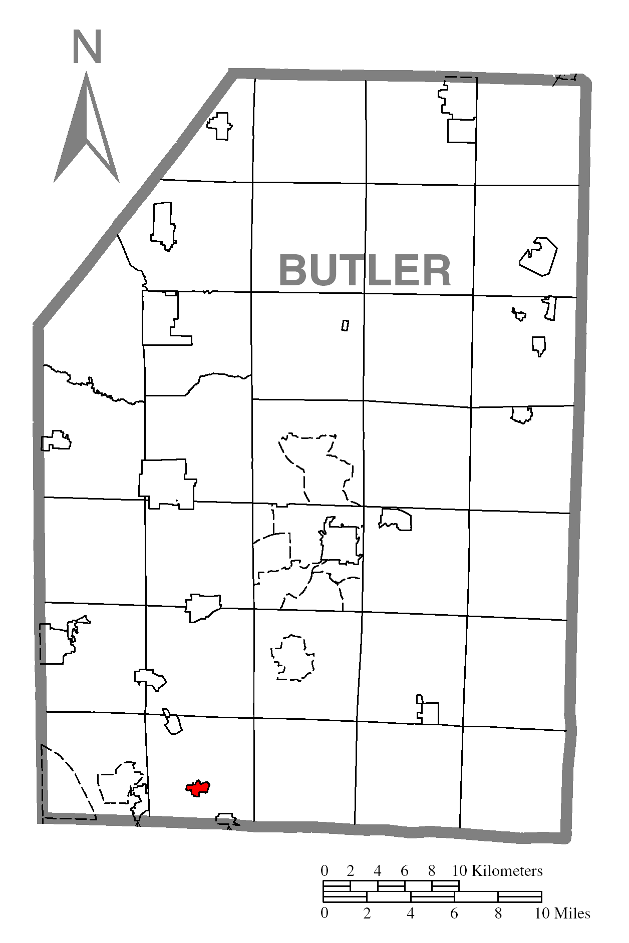 A map of Butler County showing Mars, Pennsylvania (alternate) highlighted on the map.